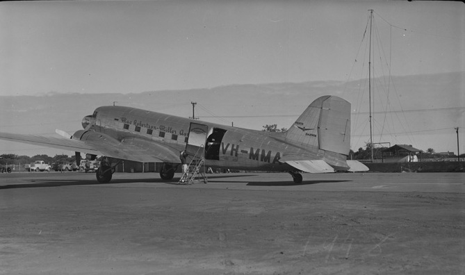 A MacRobertson Miller Airlines (MMA) DC3, on a landing strip probably somewhere in the north-west of Western Australia